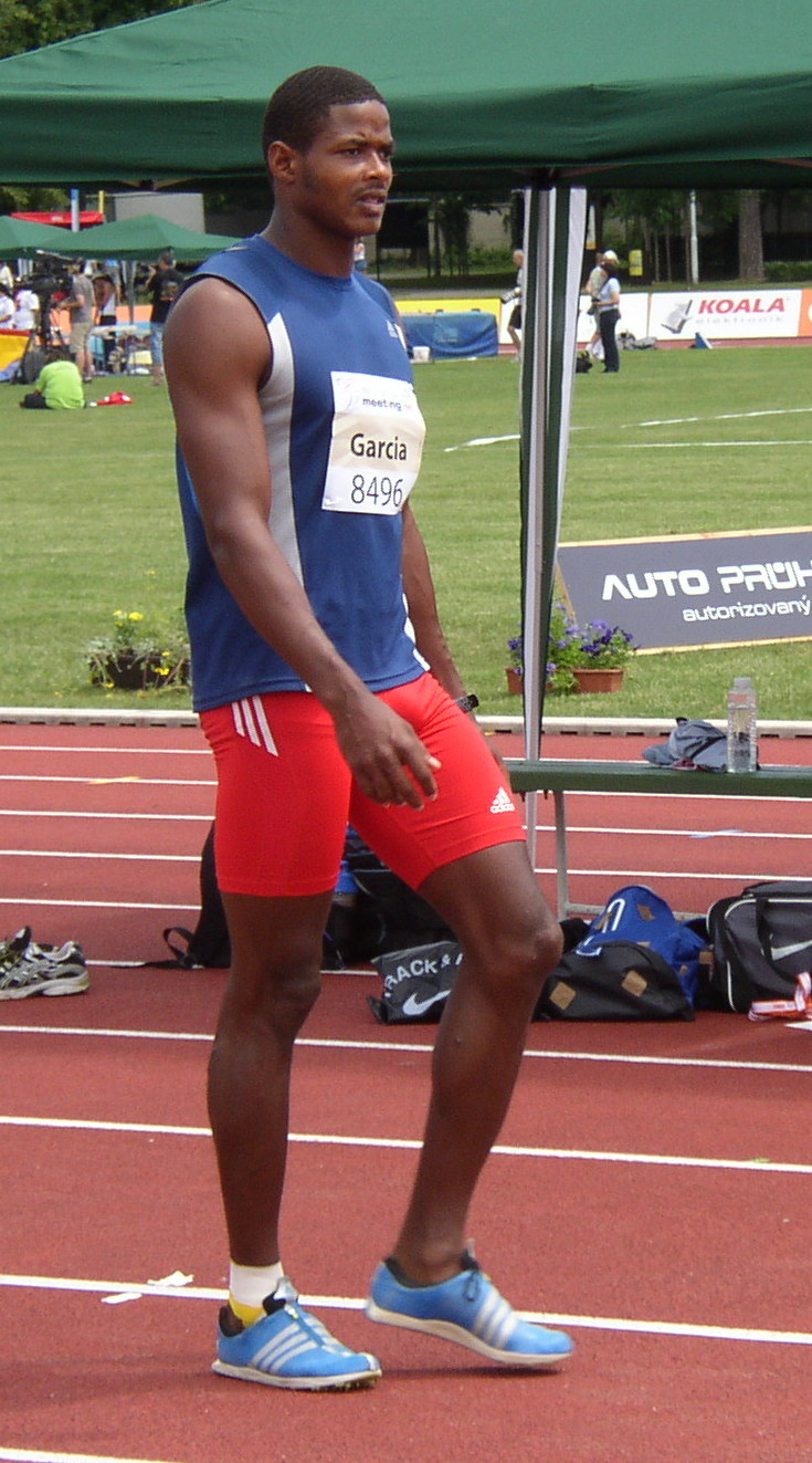 Athlete Yordanis García of Cuba prepares for his attempt in long jump during men's decathlon at 5th edition of the TNT - Fortuna Meeting (IAAF World Combined Events Challenge Meeting, Sletiště Stadium, Kladno, Czech Republic, 15 June 2011, 12:49).